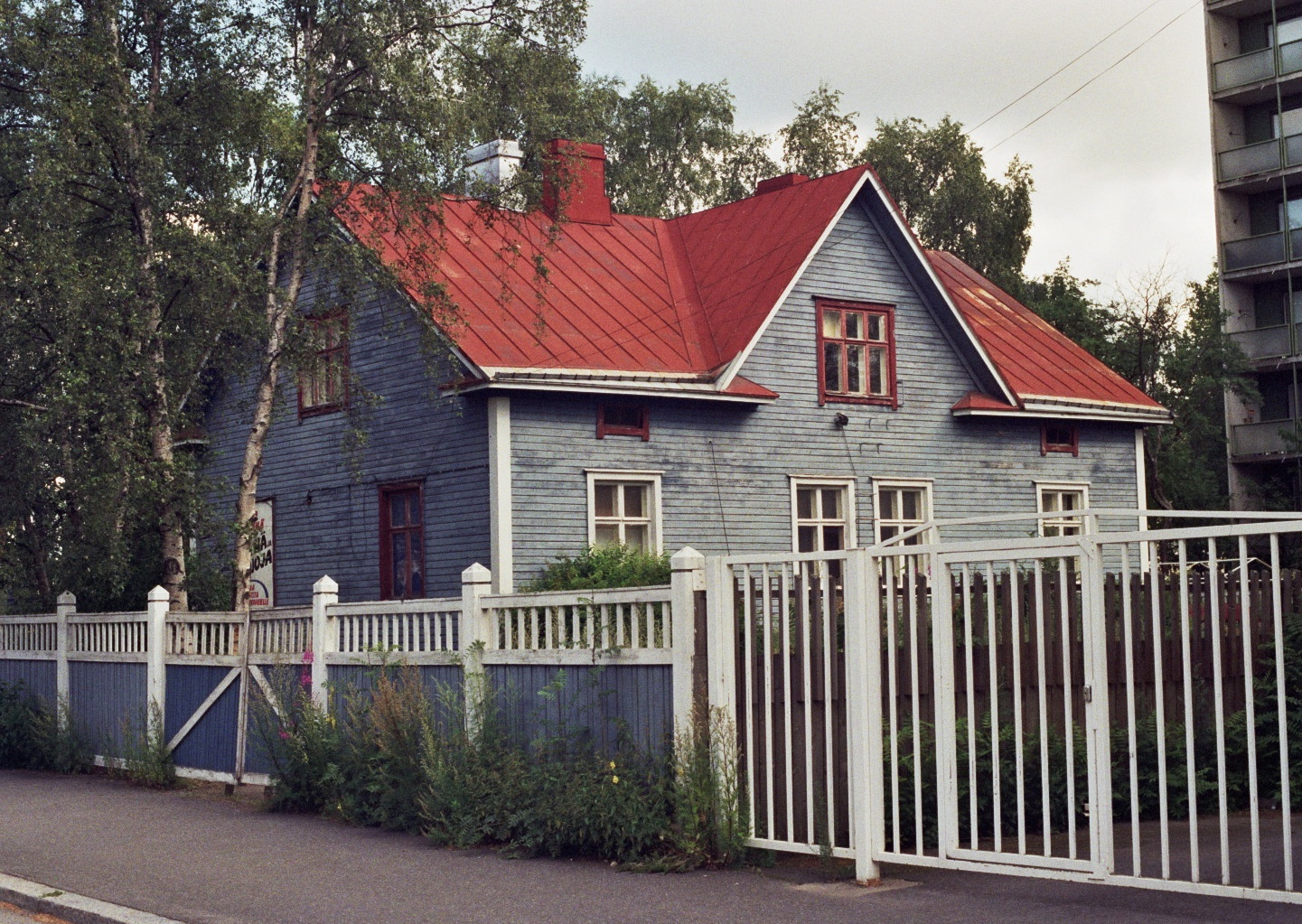 The blue house in the Tuira district of Oulu, Finland. Built in the early 1900s, it is perhaps best known for being the former residence of Samuli Paulaharju (1875–1944), an author and a collector of Finnish folklore. Since then it has also served as a restaurant and housed an antiquarian shop.